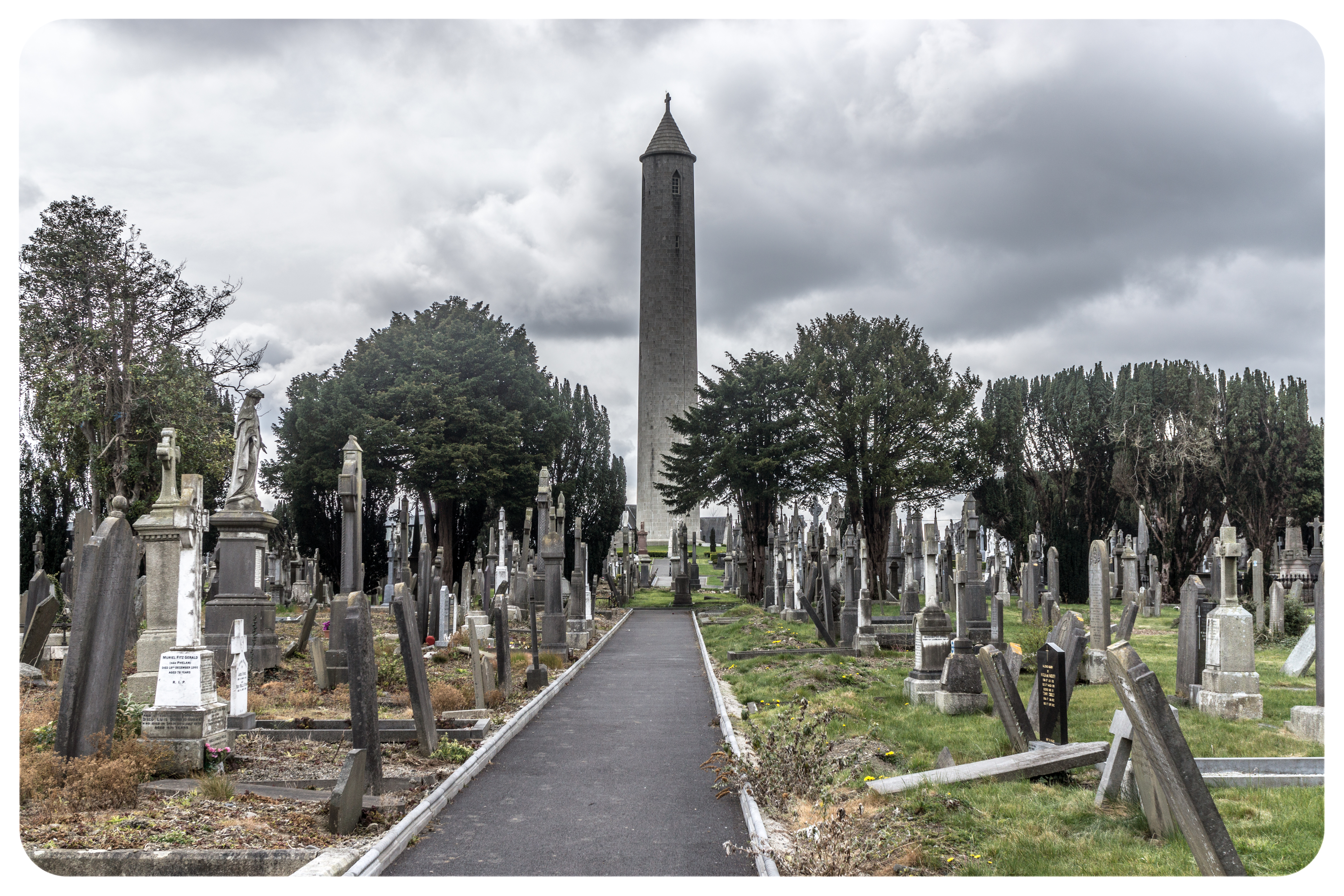 Daniel O'Connell's tomb at Glasnevin Cemetery had a "symbolic" round tower built above it after his burial in 1847. Irish round towers are early medieval stone towers of a type found mainly in Ireland, with three in Scotland and one on the Isle of Man. Though there is no certain agreement as to their purpose, it is thought they were principally bell towers, places of refuge, or a combination of these. Generally found in the vicinity of a church or monastery, the door of the tower faces the west doorway of the church. In this way it has been possible to determine without excavation the approximate site of lost churches, where the tower still exists.